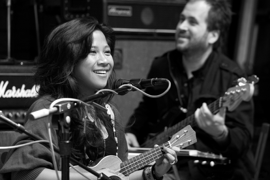 The Malaysian musician Zee Avi, performing with her ukulele. Photo taken at the Filter Party at South by Southwest, Cedar Street Courtyard, Austin, Texas, United States, with a Canon EOS DIGITAL REBEL XTi camera.